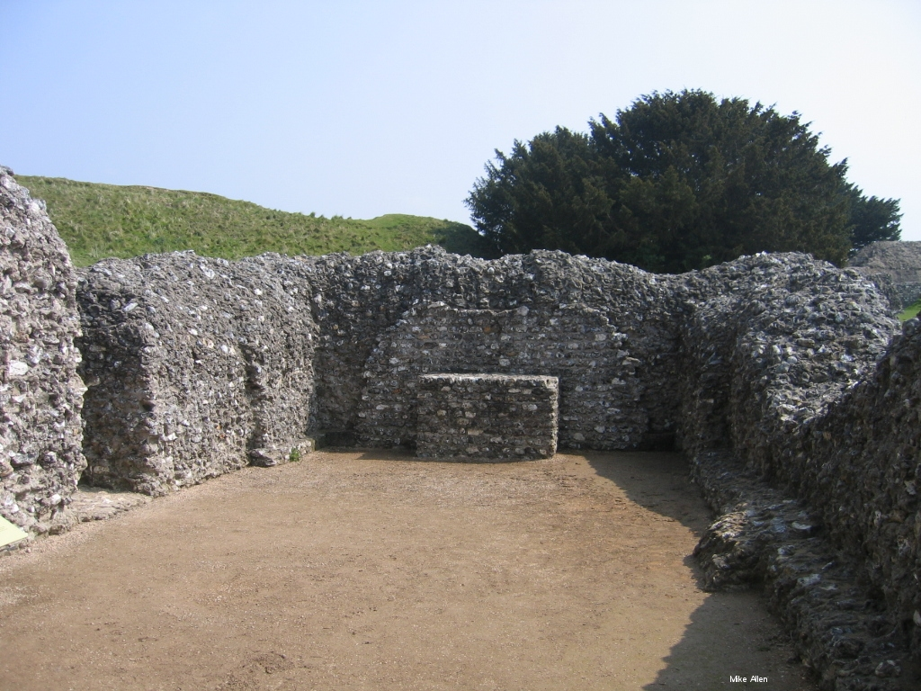 Old Sarum, Salisbury, Wiltshire. Photo taken May 2008